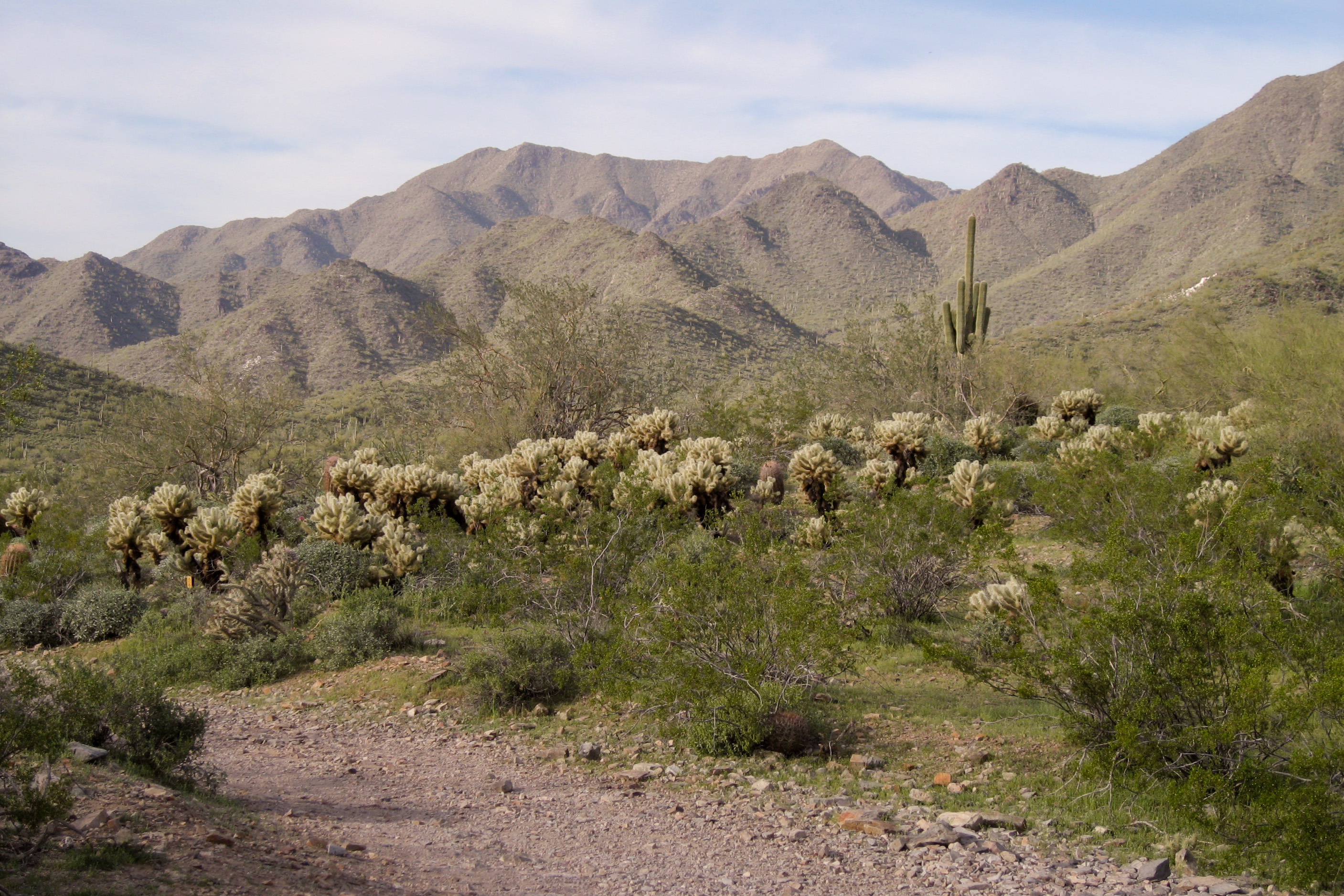 Cholla cactus and desert vegetation in the McDowell Mountains in Scottsdale, Arizona